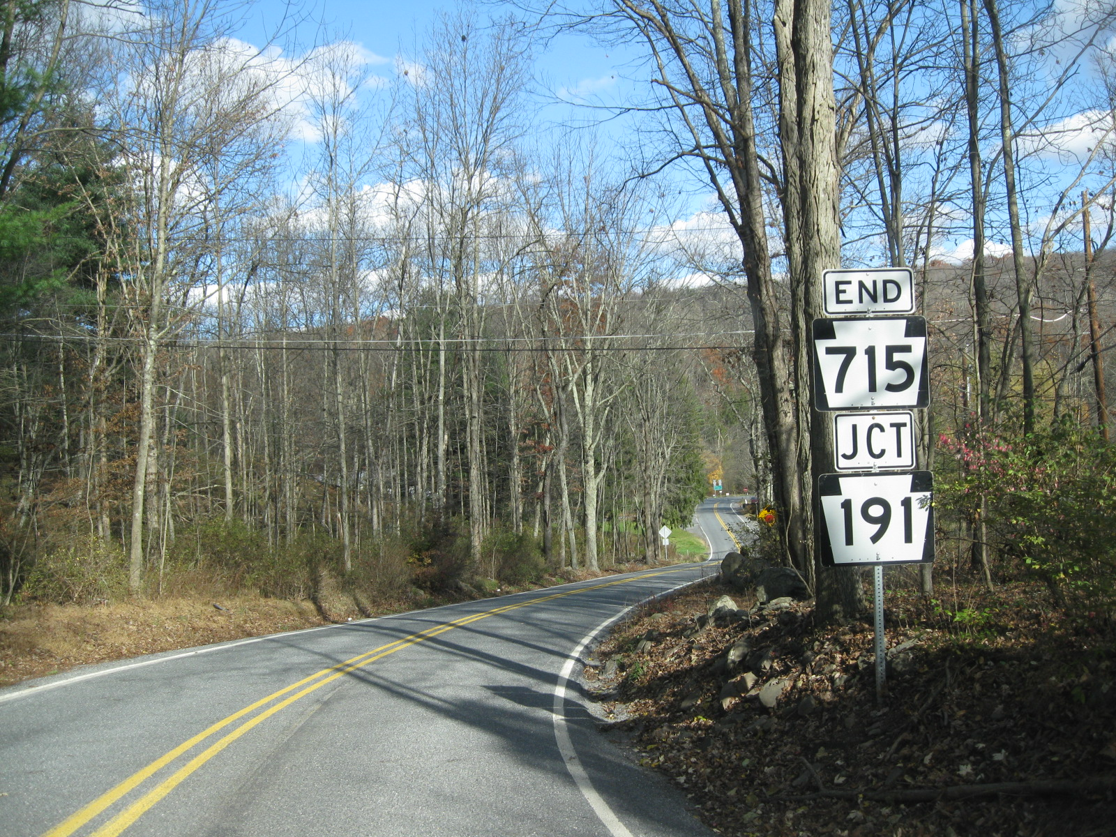 Pennsylvania State Route 715 approaching the northern terminus at Pennsylvania State Route 191 in Paradise Township.